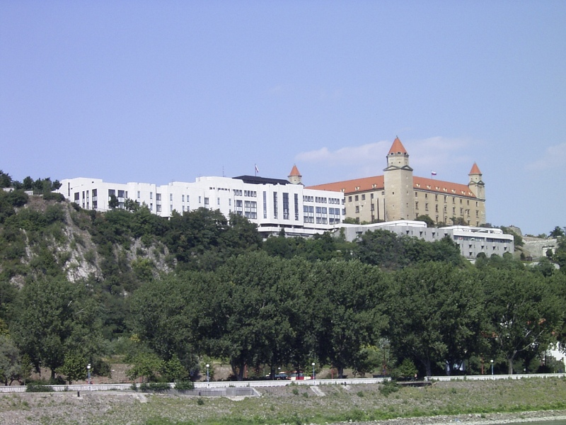 Danube in Bratislava